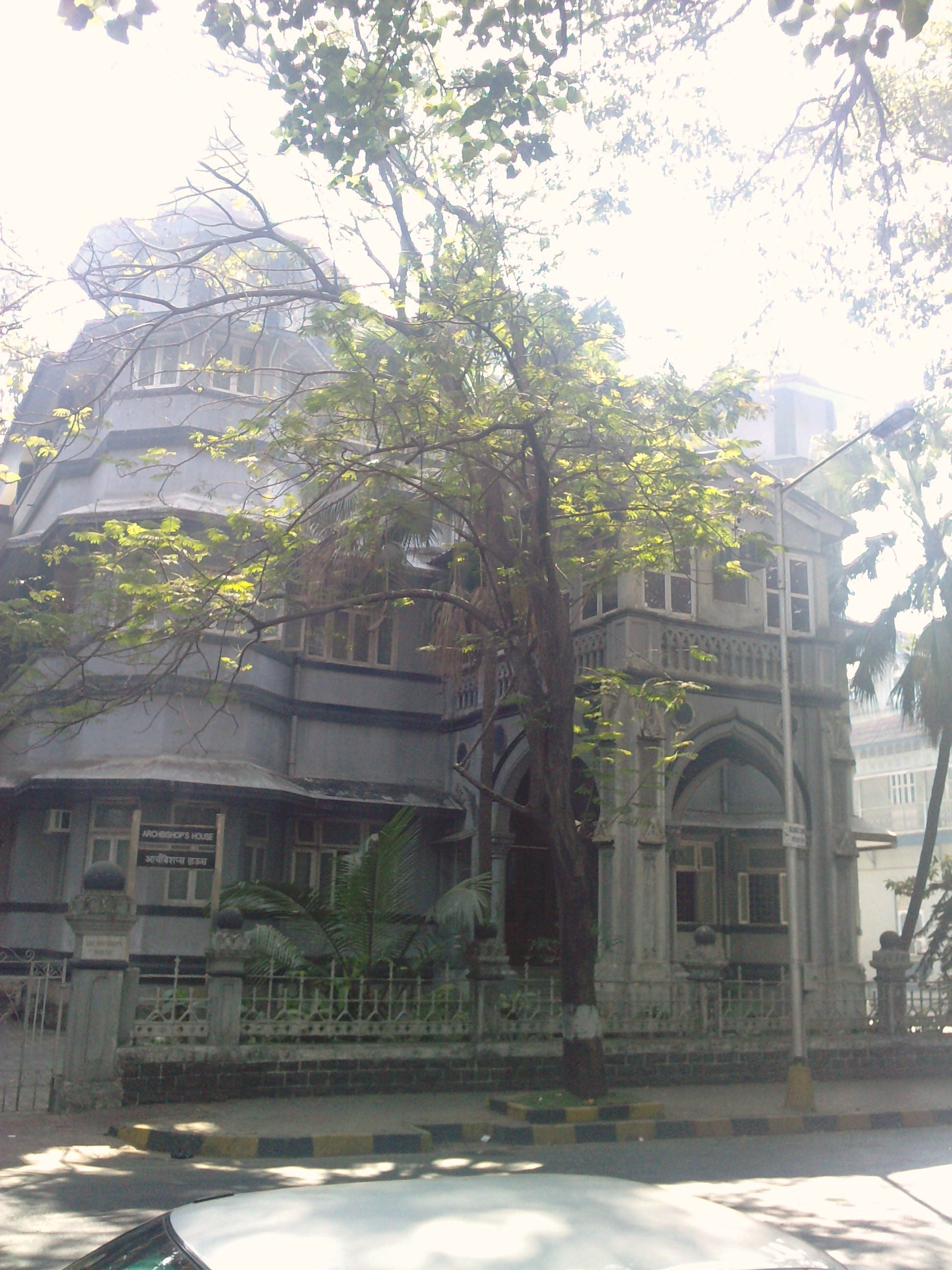 TAKEN DURING WIKIPEDIA TAKES MUMBAI 1 PHOTOWALK